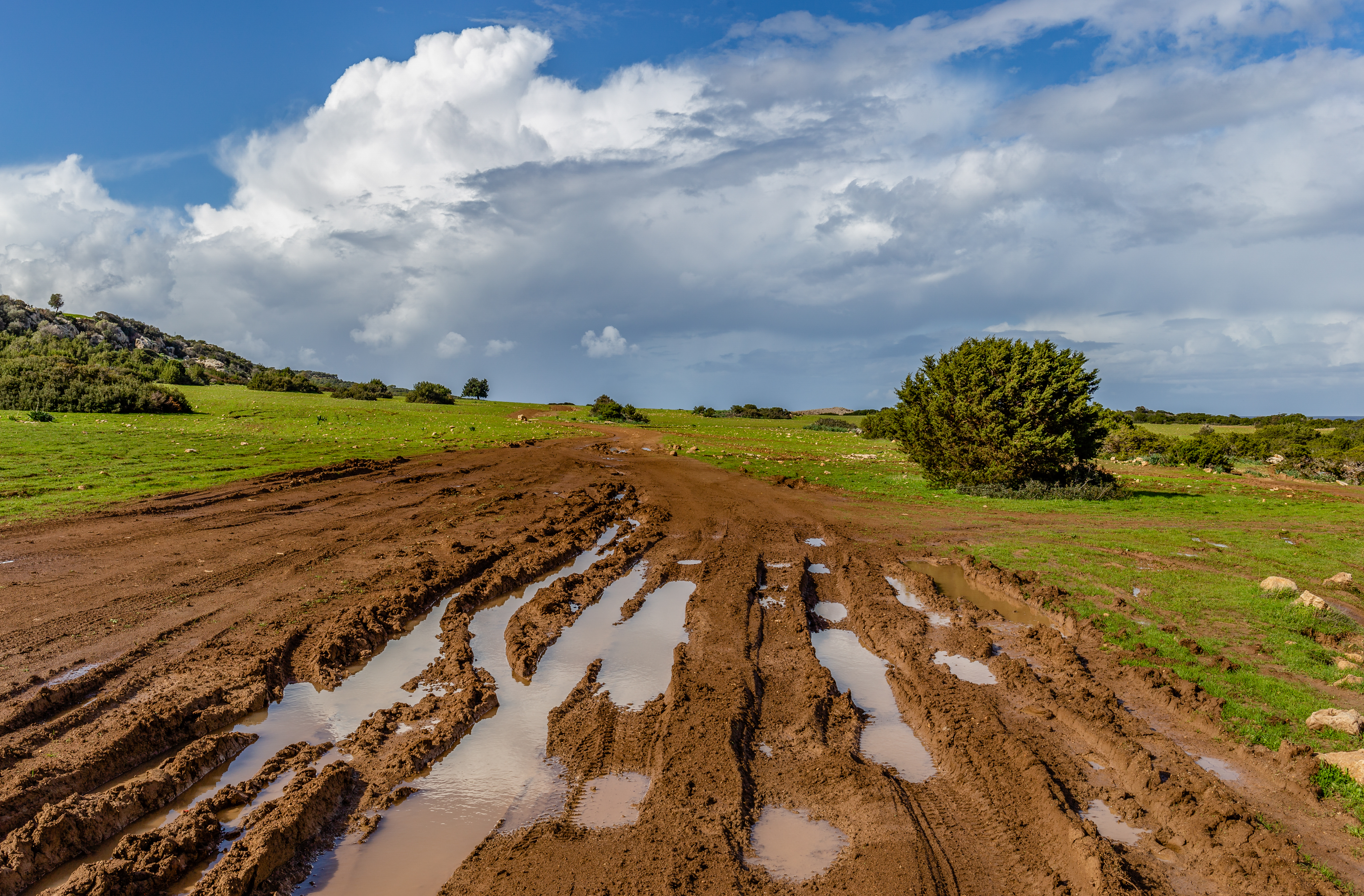 Muddy road in Akamas Peninsula, Cyprus.